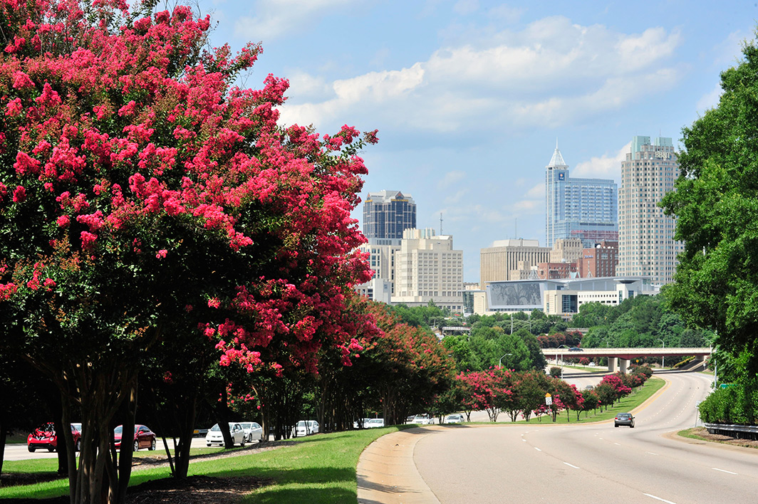 Looking downtown towards the Raleigh skyline with crepe myrtle trees in bloom.